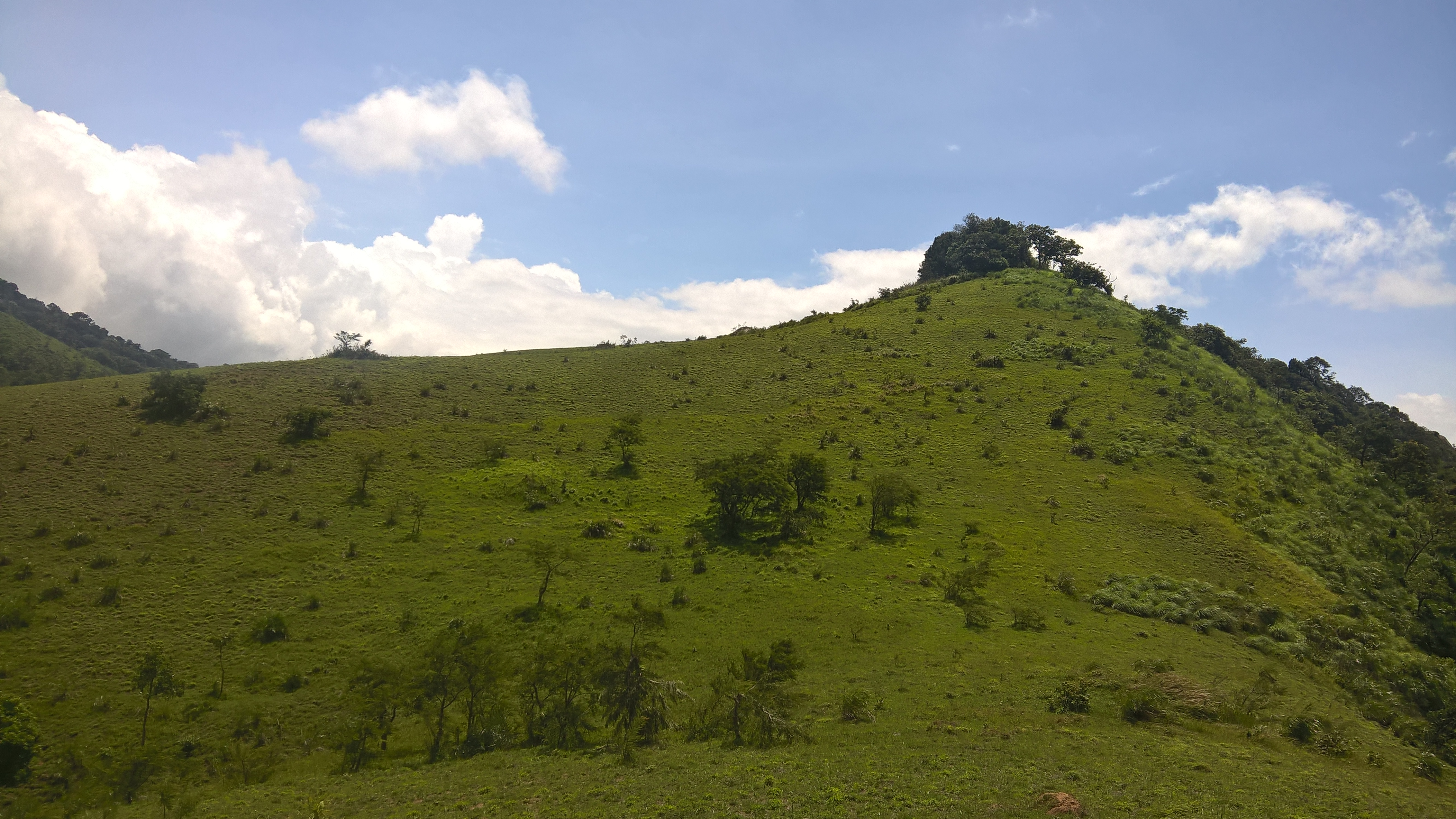 This picture shows the view from the Chaturangapara which is situated at Kerala Tamilnadu border.Attraction of this place is at winter season top view of clouds can be seen and another attraction is that a large area of Tamilnadu can be view from this point.This picture is captured from amountain called Chaturangpara.At any seasons this area is blessed with wind at very high power.We can reach here by walk through the Theni forest area.